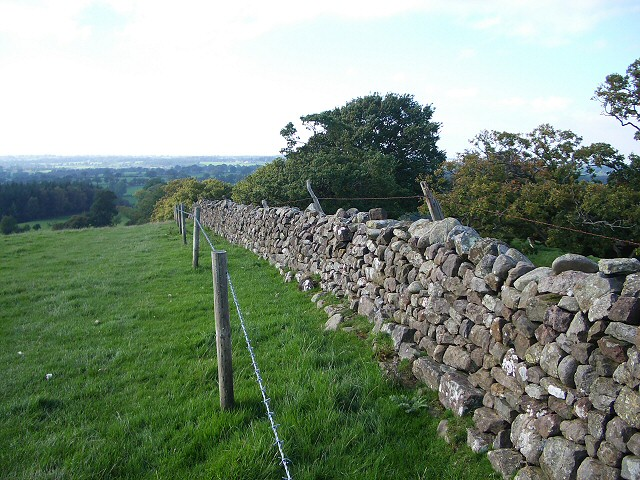 Drystone wall descending Craggle Hill Although this wall is more recent it contains blocks of Roman masonry and is on the line of Hadrian's Wall.